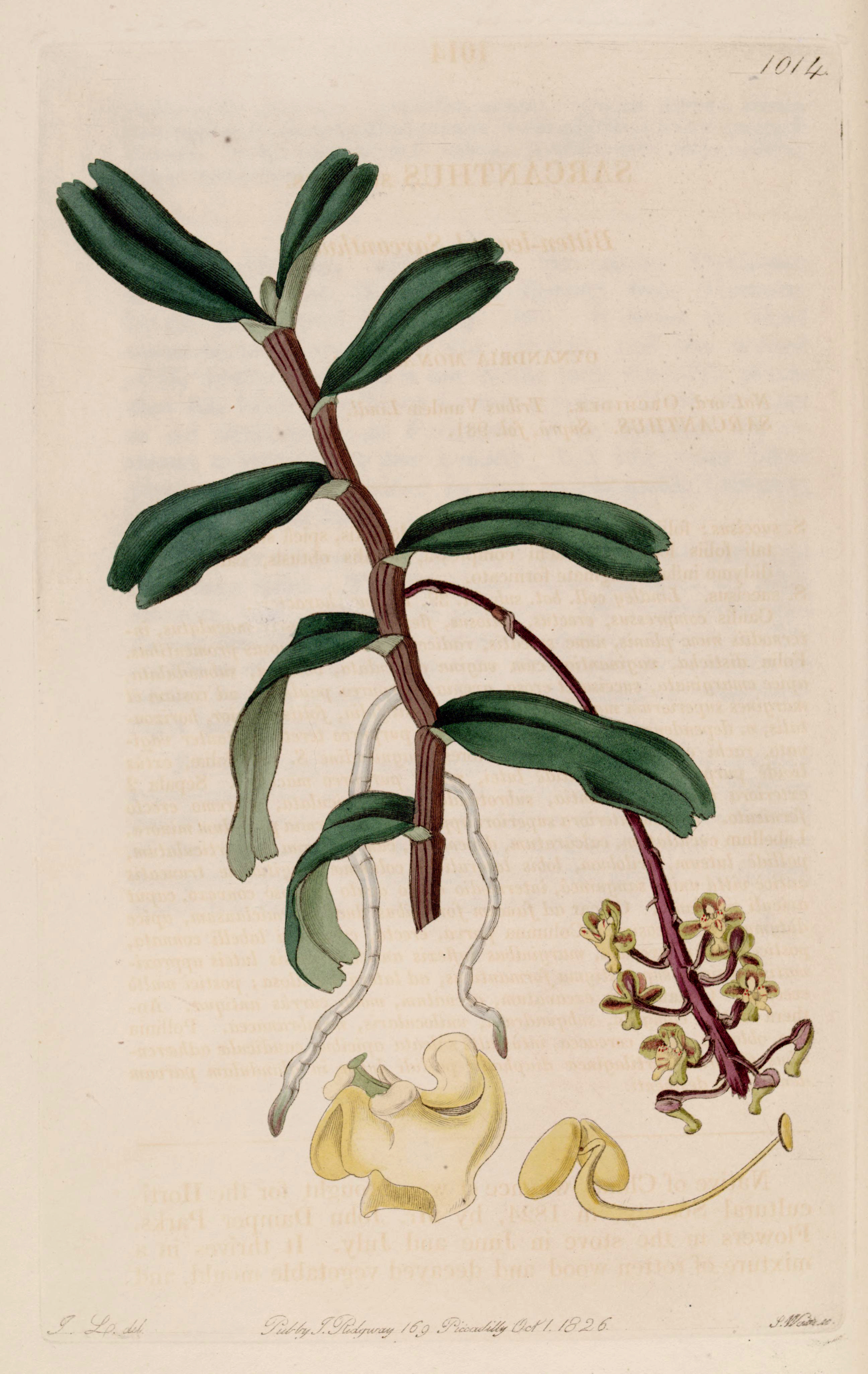 Illustration of Robiquetia succisa (as syn. Sarcanthus succisus)